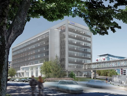 Emera Inc. head office